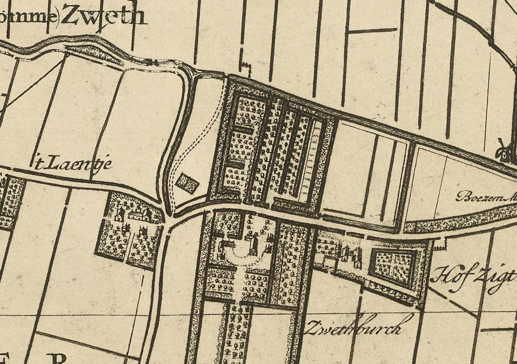 map of the zeven gaten in honselersdijk, the Netherlands